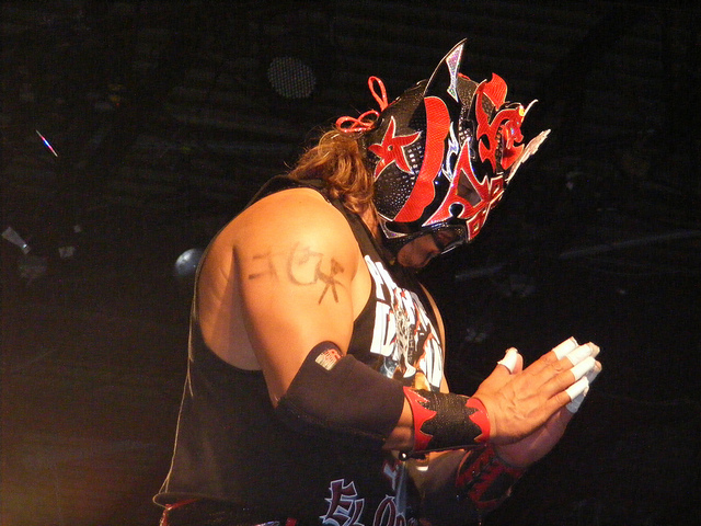 Masked wrestler El Oriental bowing during a match in Chikara